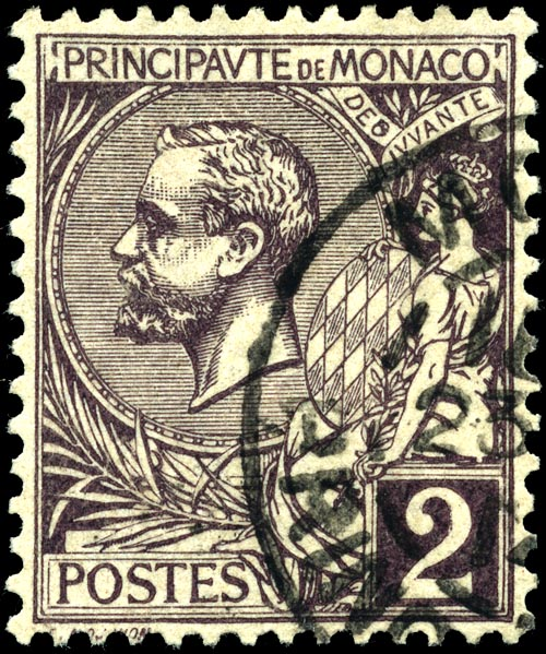 Monaco 2c stamp of 1891